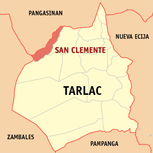 Map of Tarlac showing the location of San Clemente